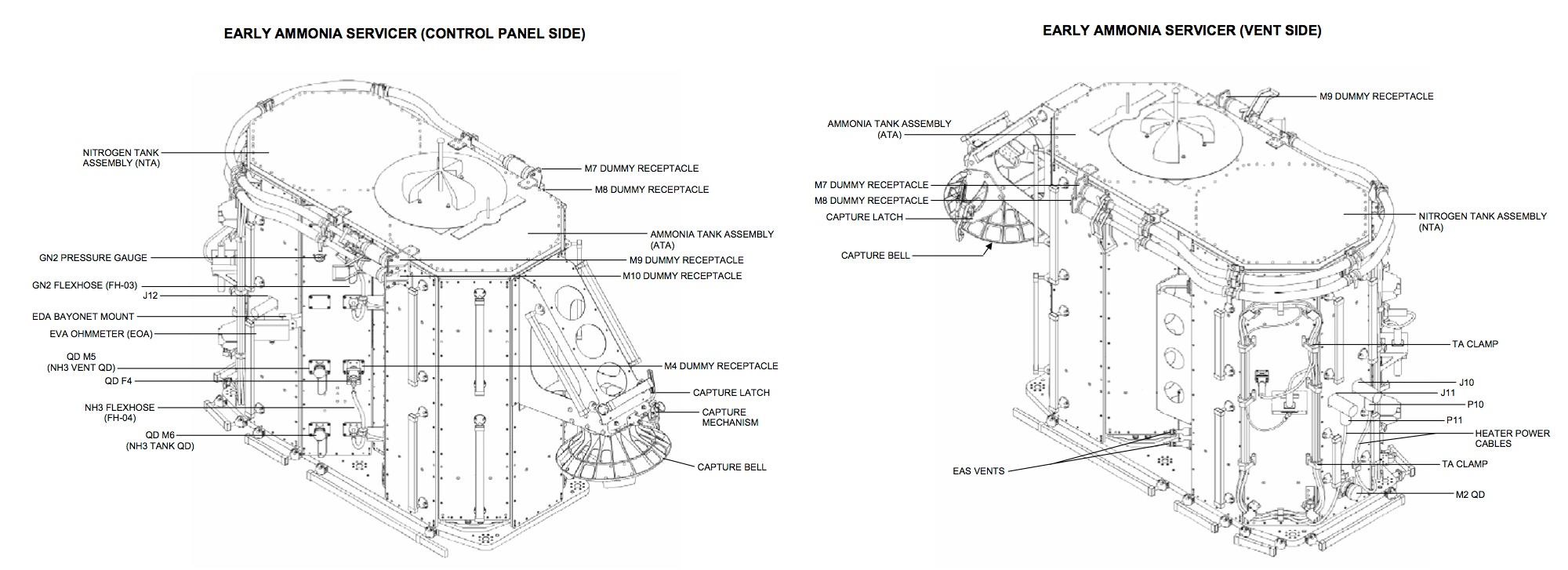 Early Ammonia Servicer